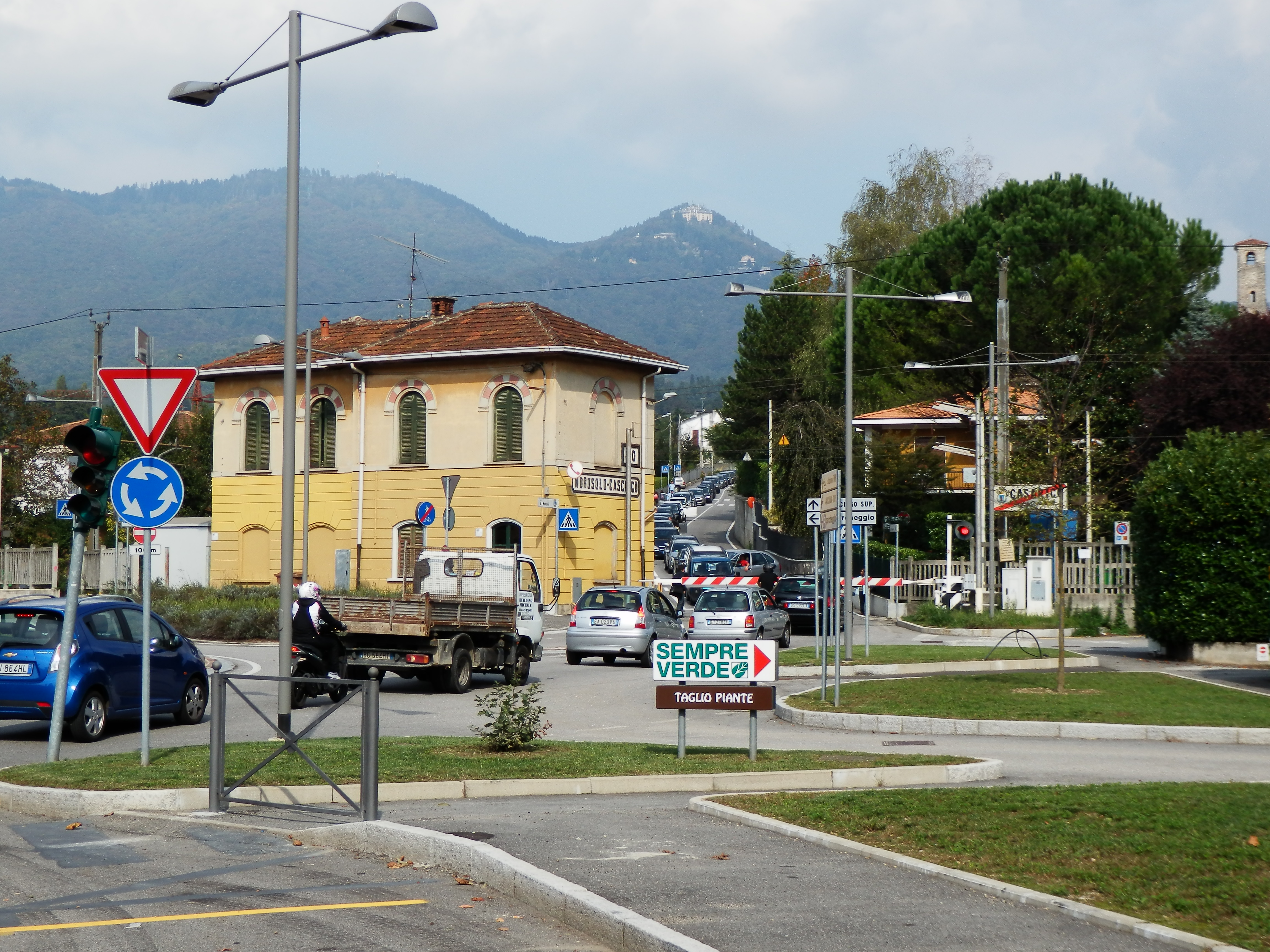 Morosolo-Casciago train station, with the level crossing.